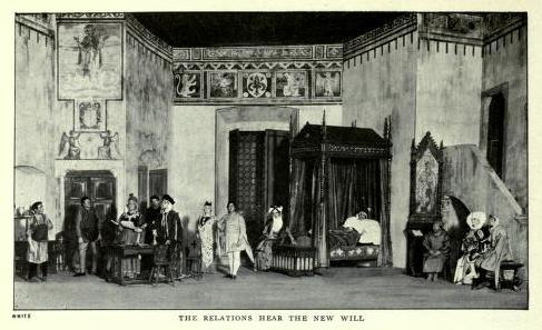 A scene from Puccini's opera Gianni Schicchi. The Donati relatives listen to the reading of the will.